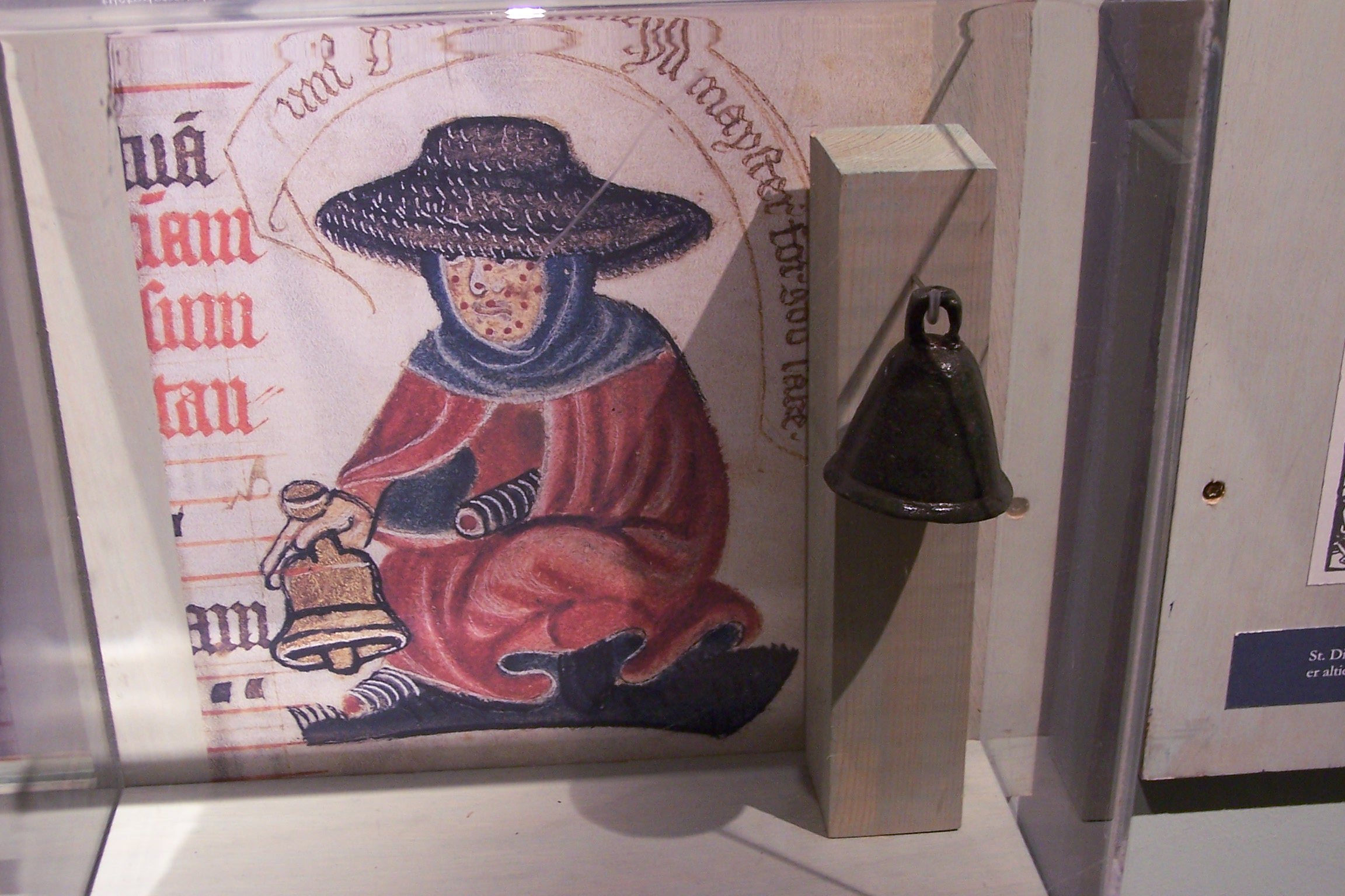 Medieval leper bell. Photo taken by Cnyborg at the museum Ribes Vikinger, Ribe, Denmark, May 2005